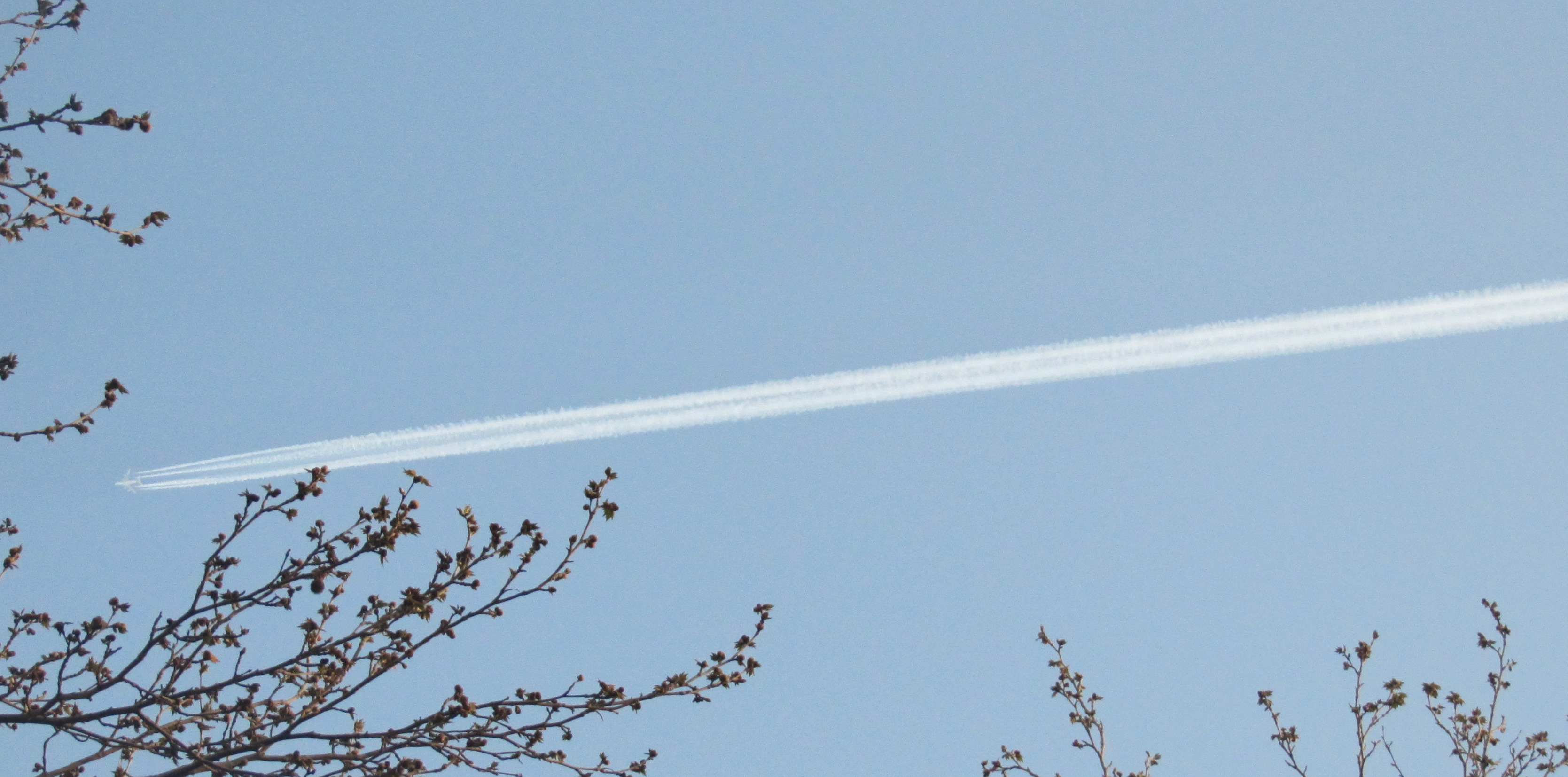 Fixed-wing aircraft in the sky